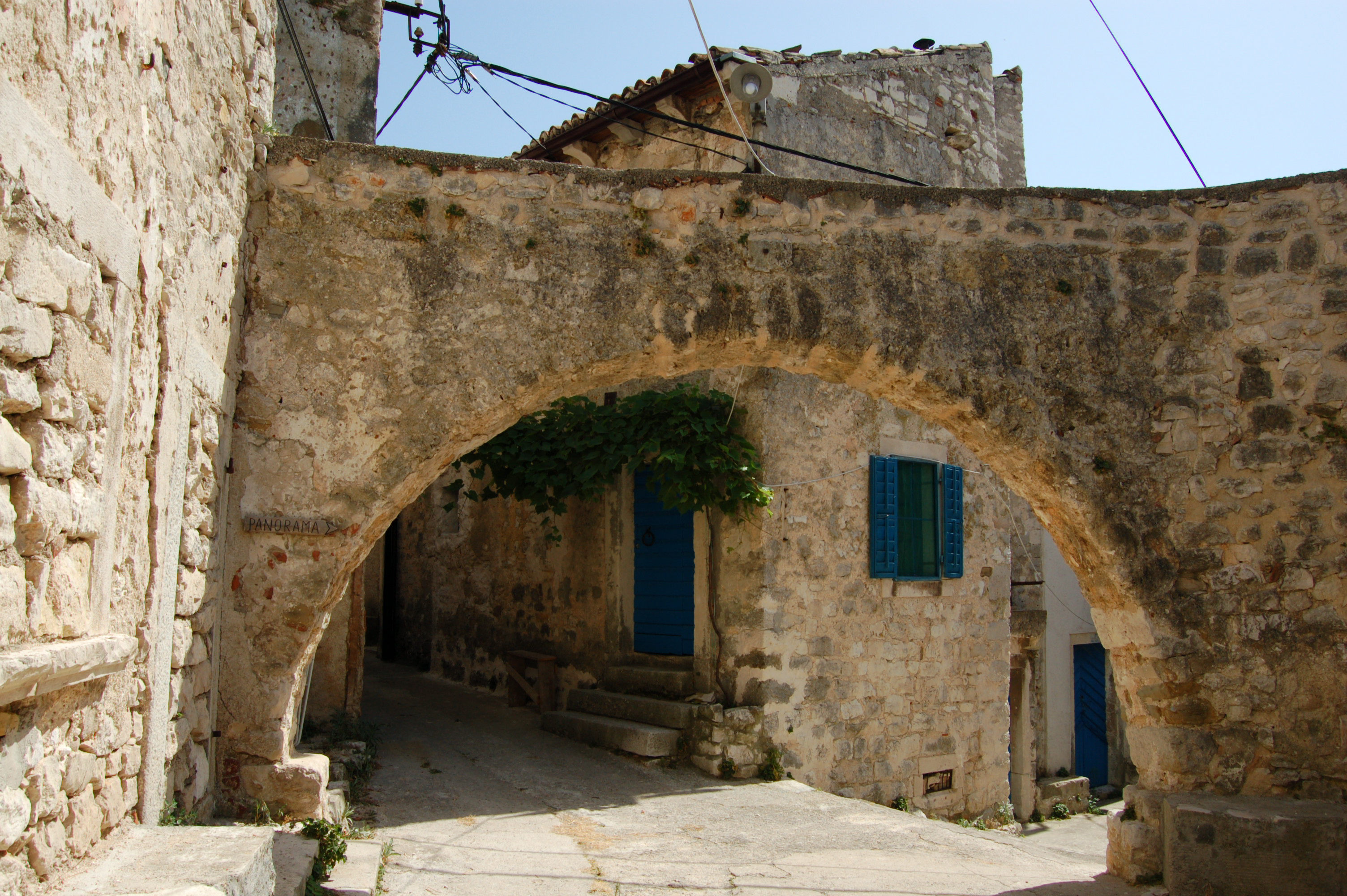 An archway in the hamlet of Plomin on the Istria peninsula in Croatia.